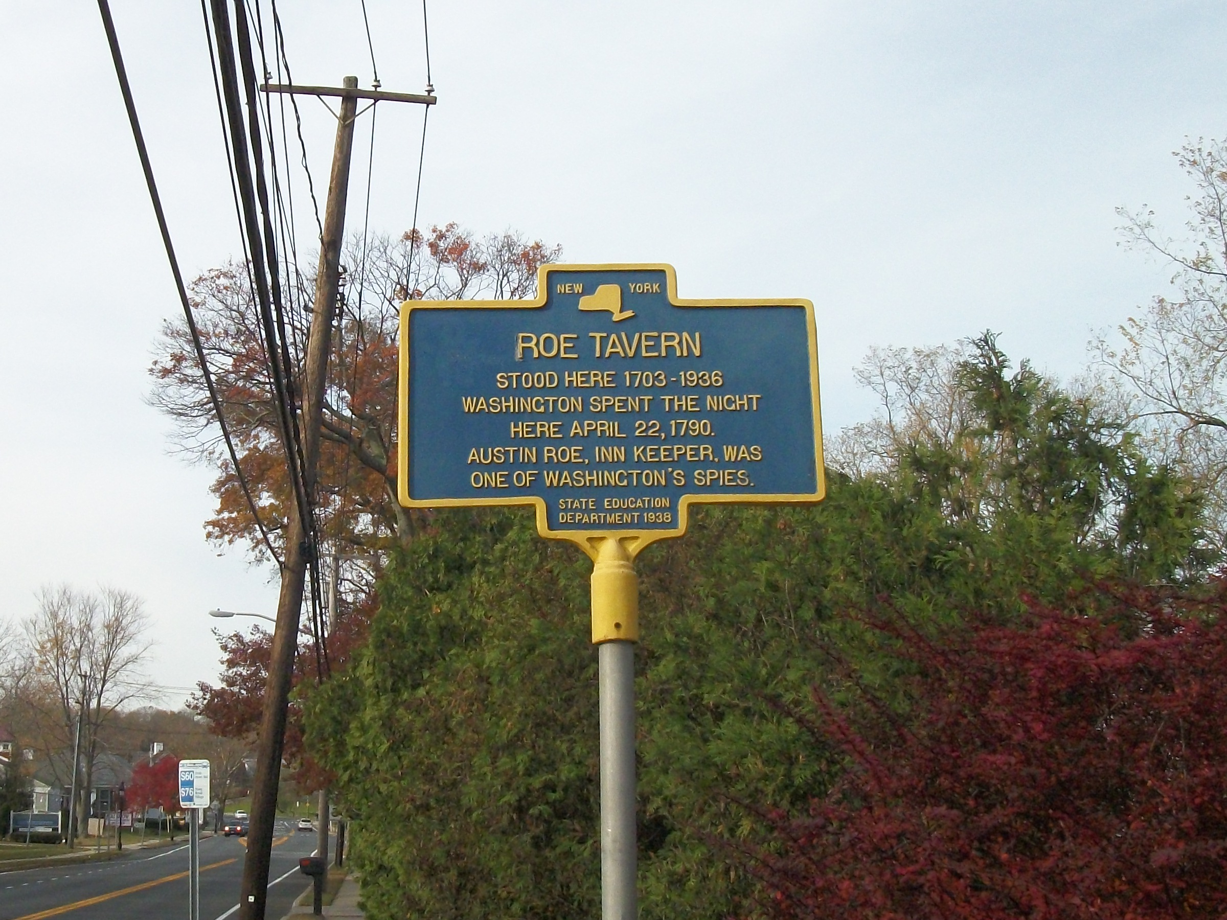 Historic Marker for the former Roe Tavern on New York State Route 25A in East Setauket, New York. It reads: ROE TAVERN Stood here 1703 - 1936 Washington spent the night here April 22, 1790 Austin Roe, Inn Keeper, was one of Washington's spies State EducationDepartment, 1936